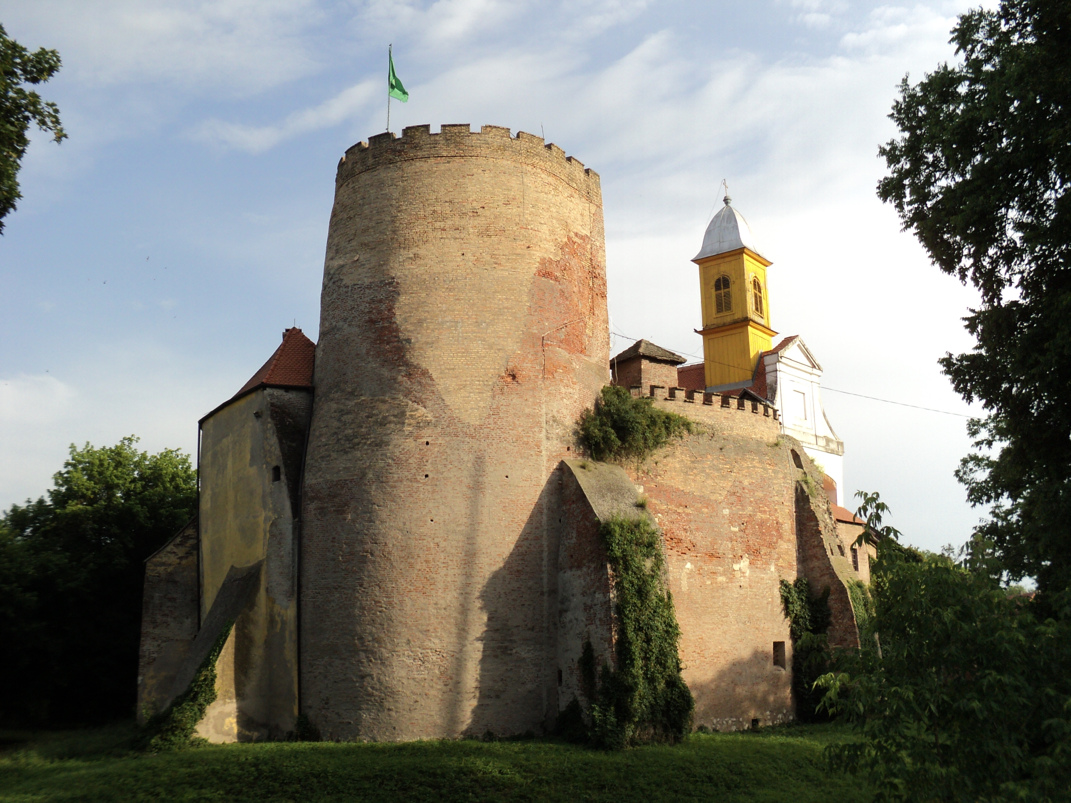 Normann-Prandau castle in Valpovo.